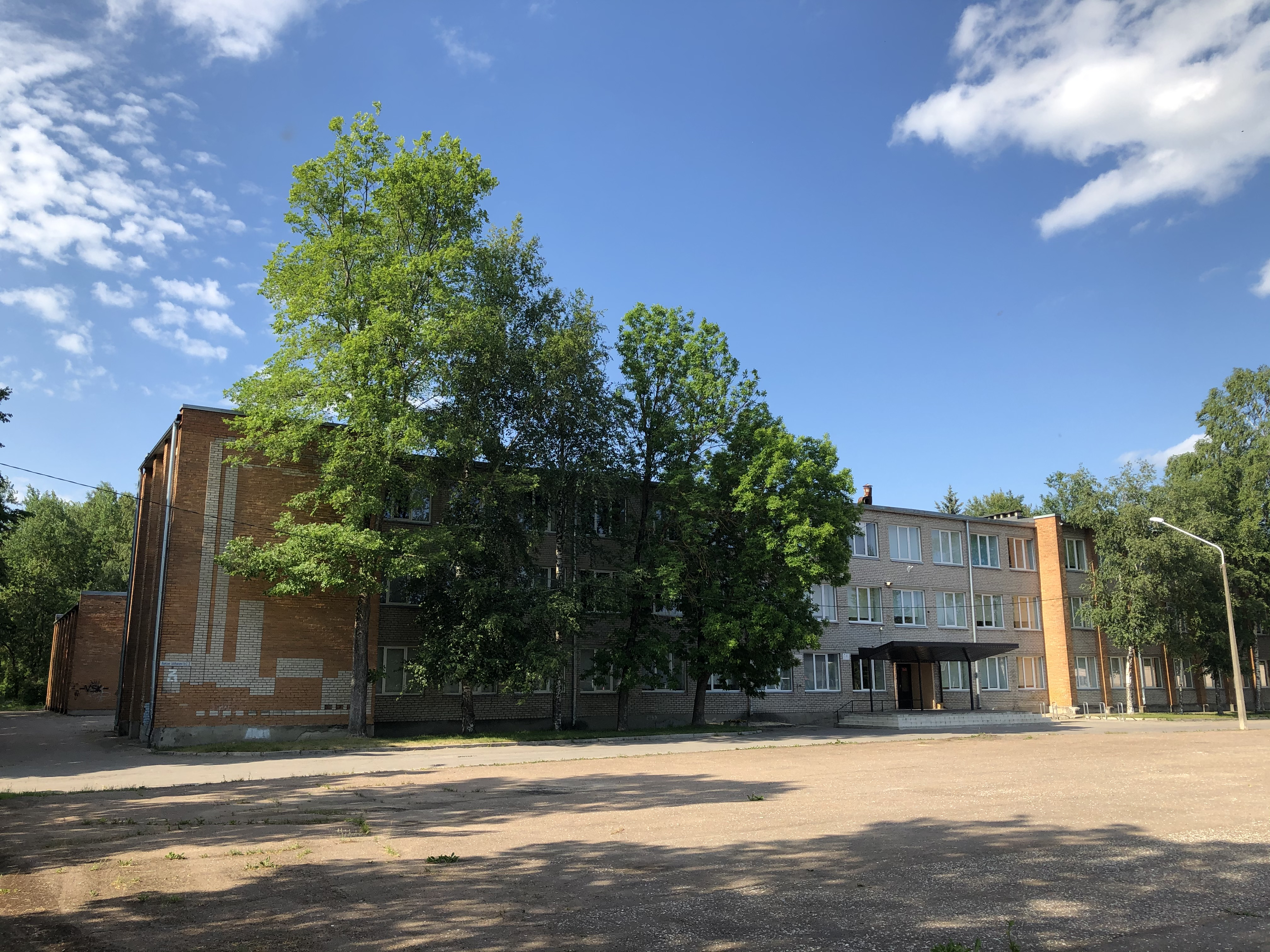 Paju School, Narva